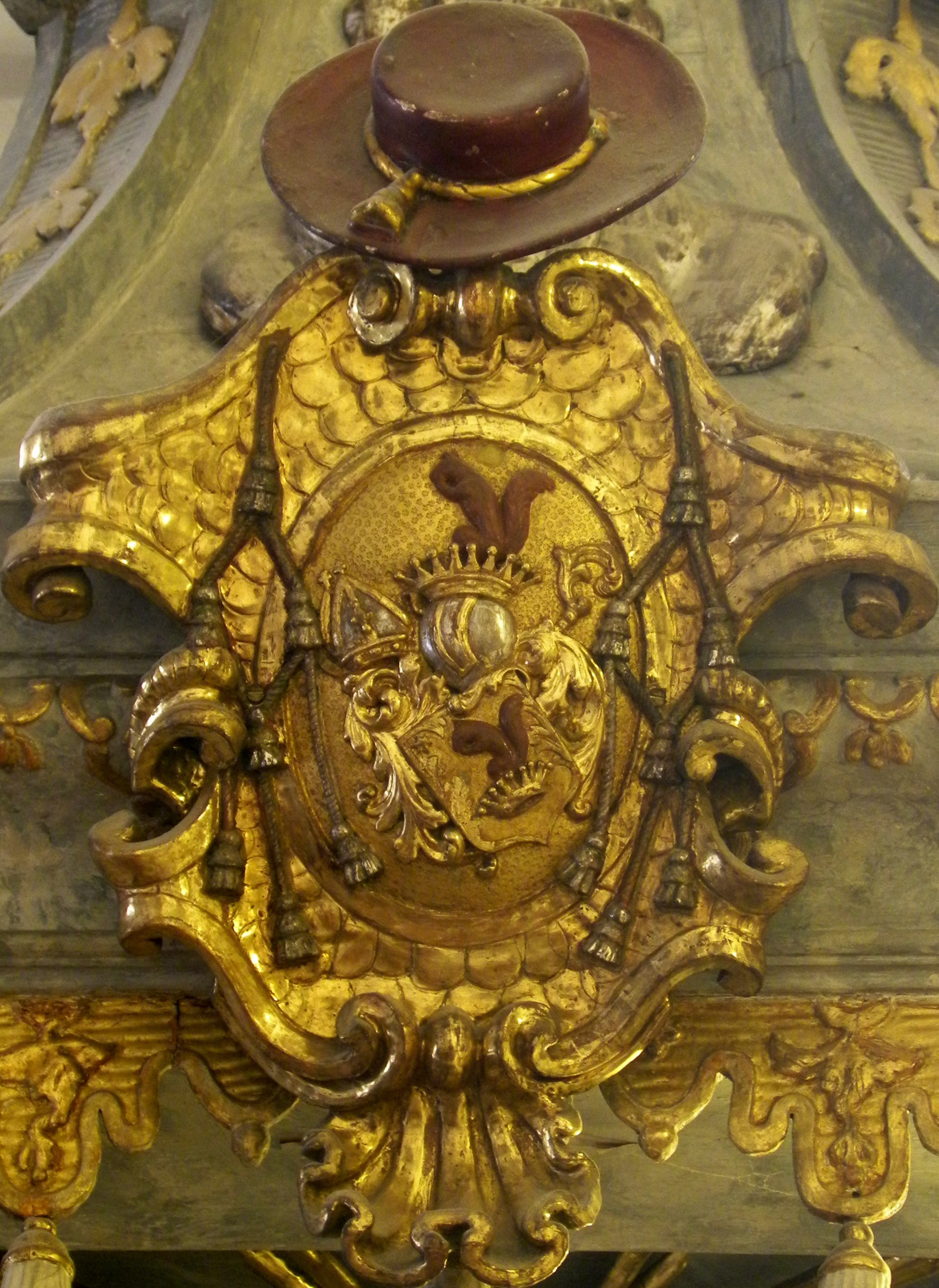 Coat of arms of Zsigmond József Berényi, bishop of Pécs, Hungary (1740 - 1748). Pulpit in the Church of the Sisters of the Order of St Ursula, Bratislava.